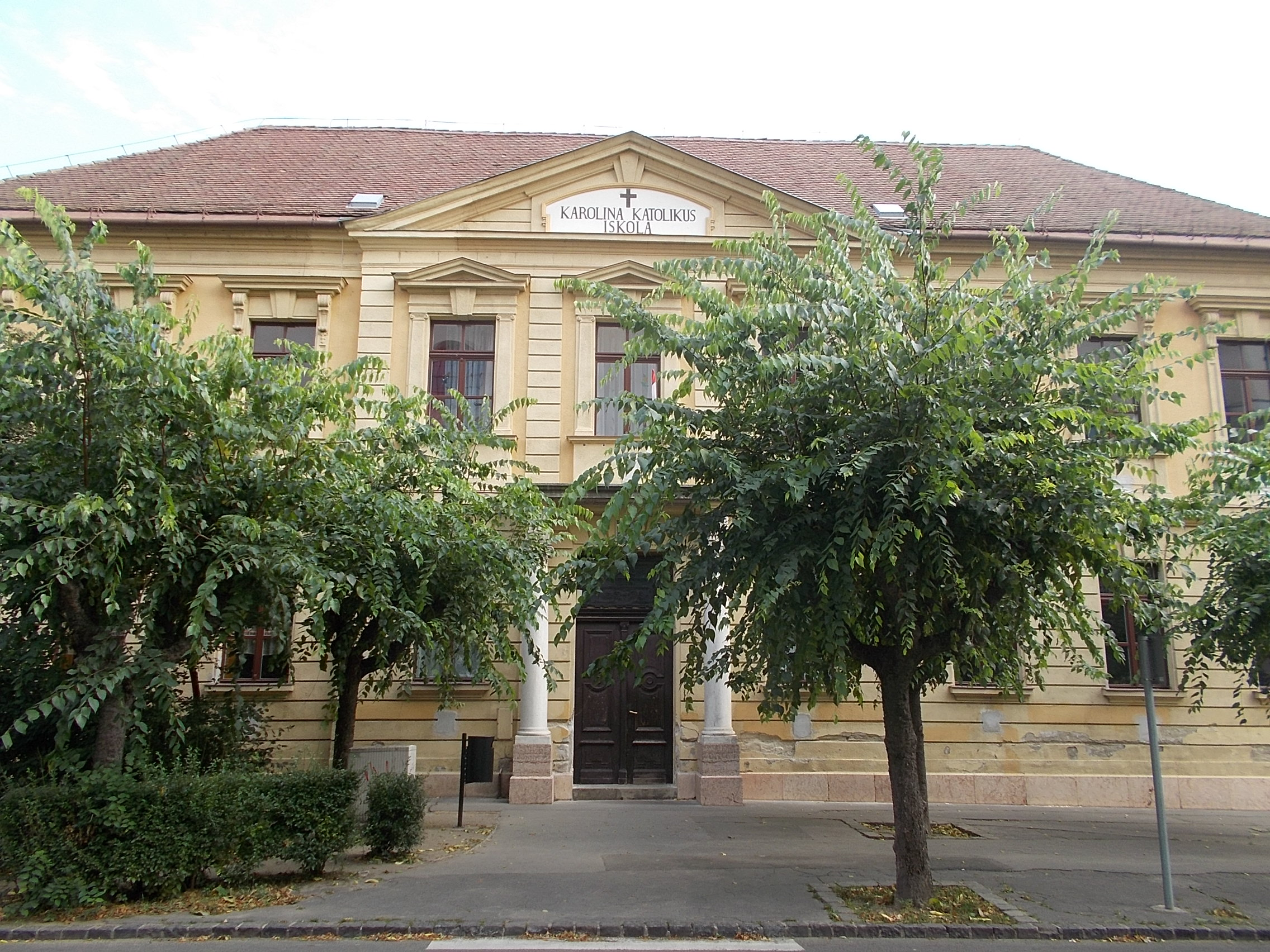 Karolina Catholic Primary School, the Cathedral Choir School and Elementary Art School. - Konstantin Sq., Vác, Pest County, Hungary